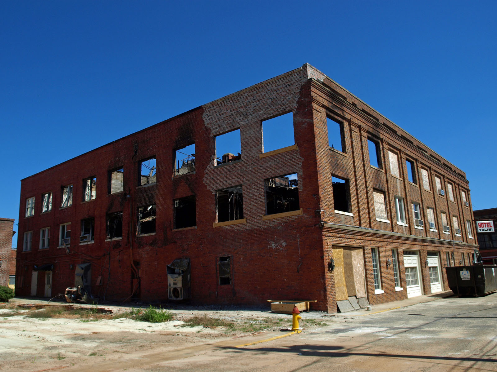 Hotel Talisi in Tallassee, Alabama